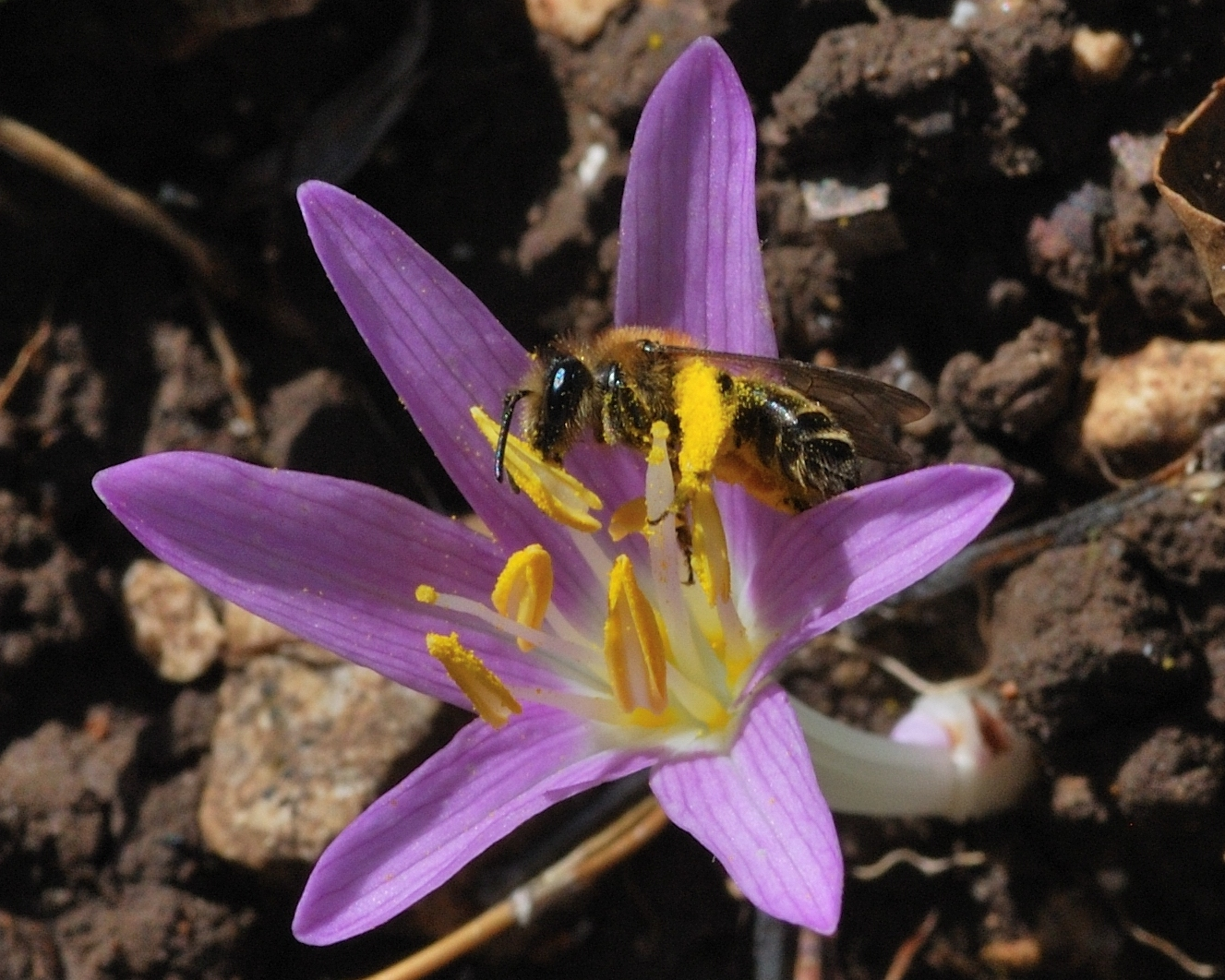 Female wild bee (Andrena (Euandrena) sp.) collecting pollen from a Colchicum stevenii flower, Horshat Ha'arba'im, Mount Carmel, Israel, Novemebr 6, 2009, 10:50.